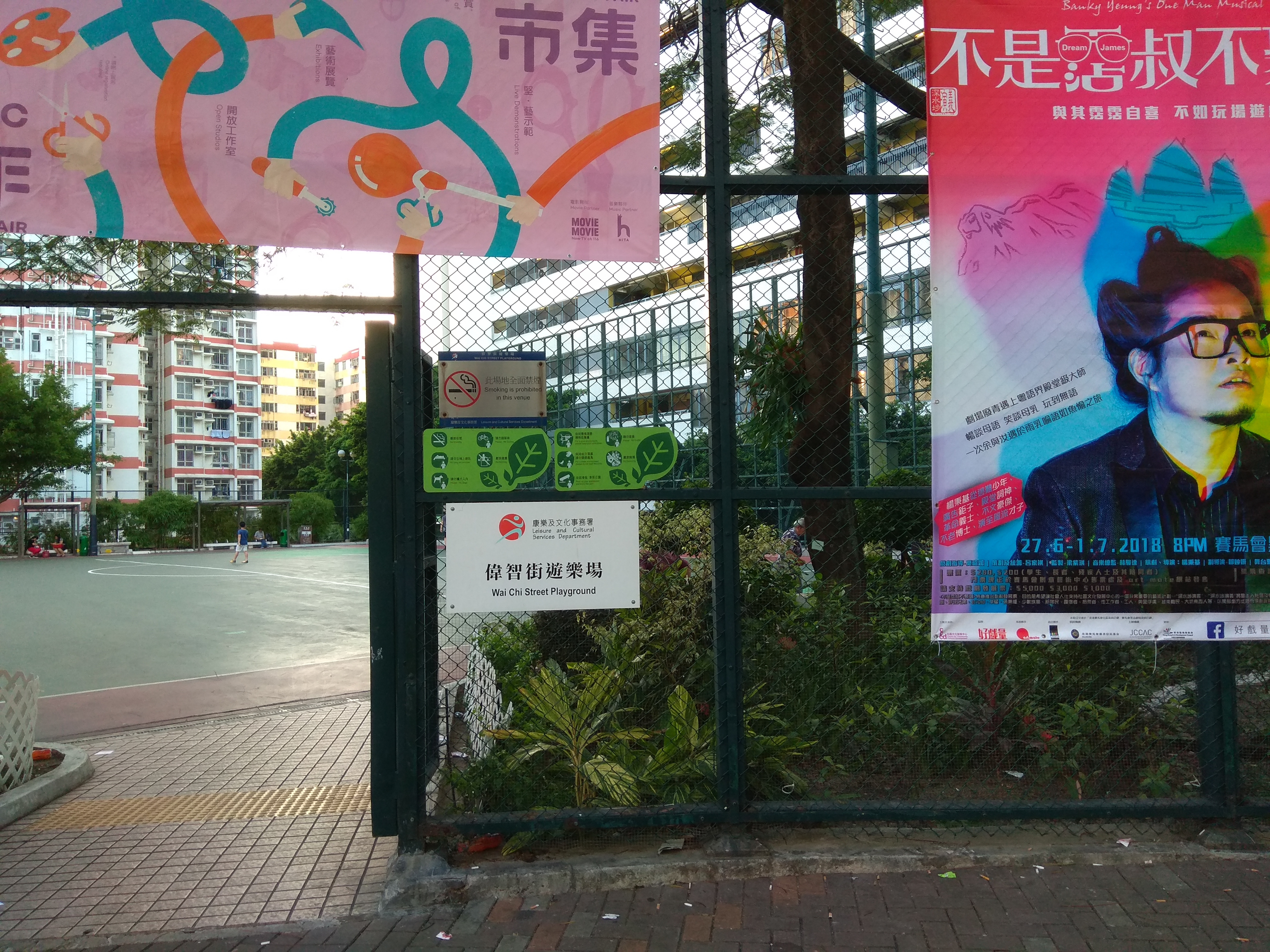 Wai Chi Street Playground